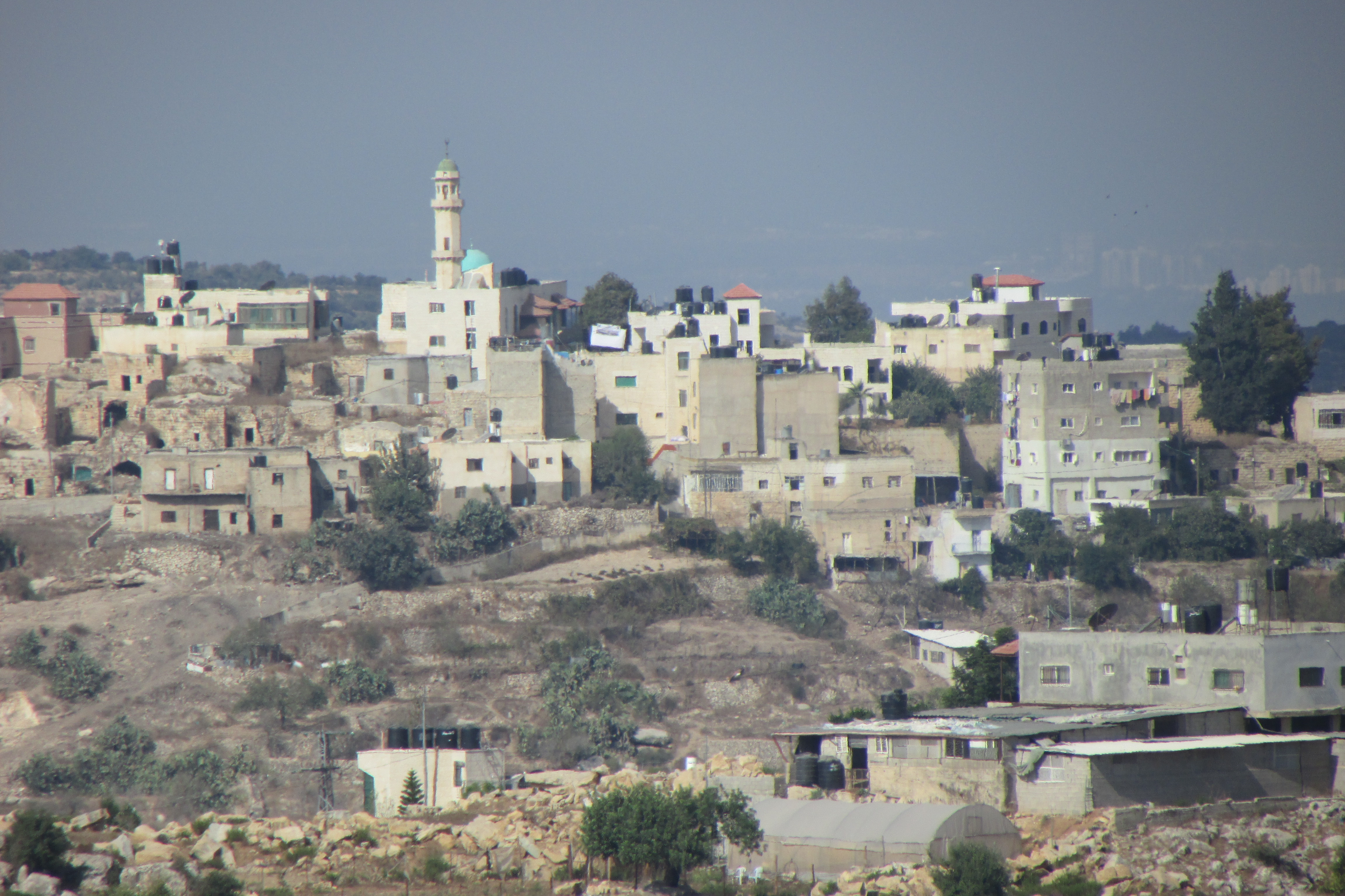 Central Kobar. The closest houses are in Burham. Taken from the east on route 465.